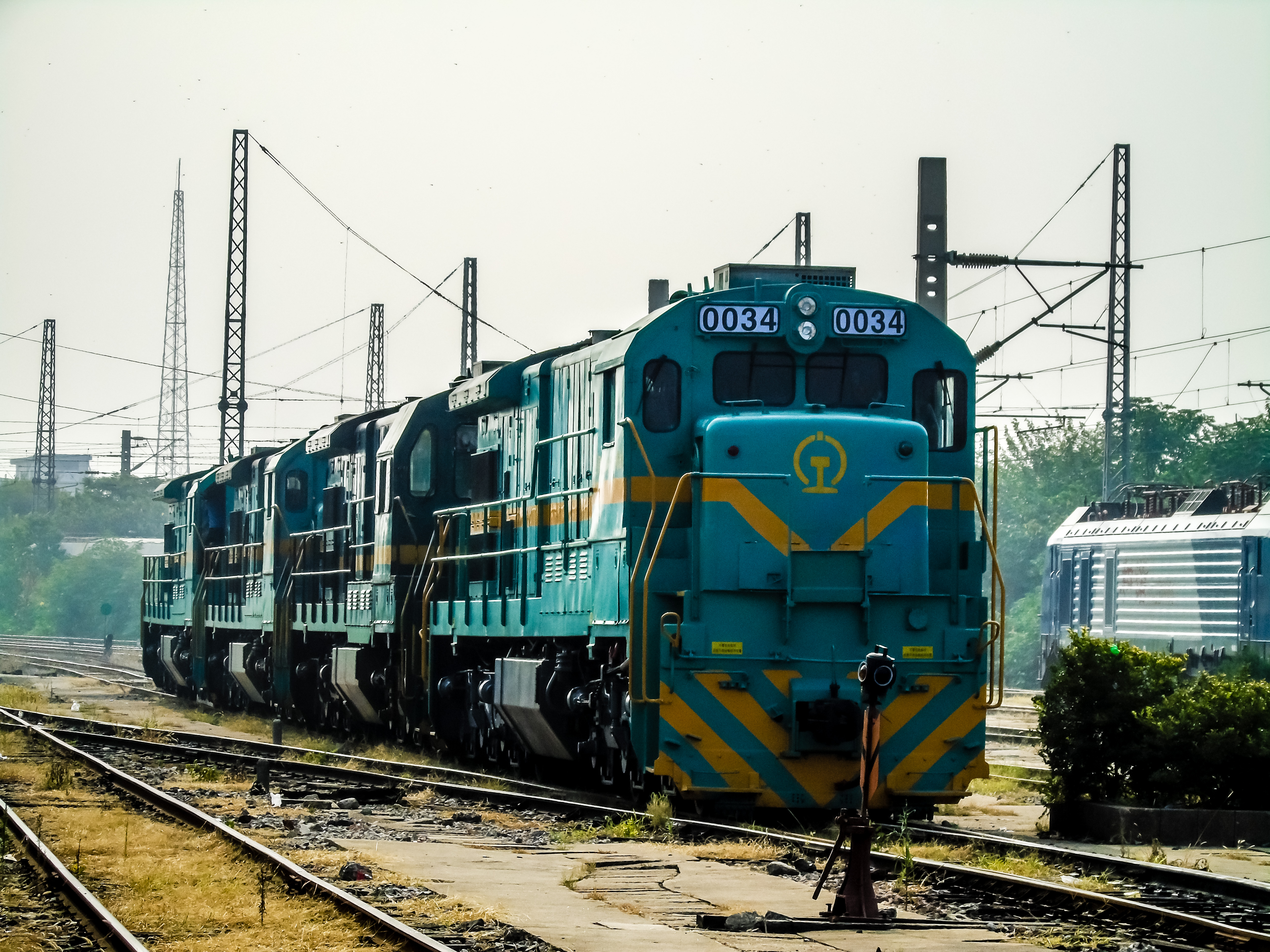 ND5s at Bengbudong Railway Station